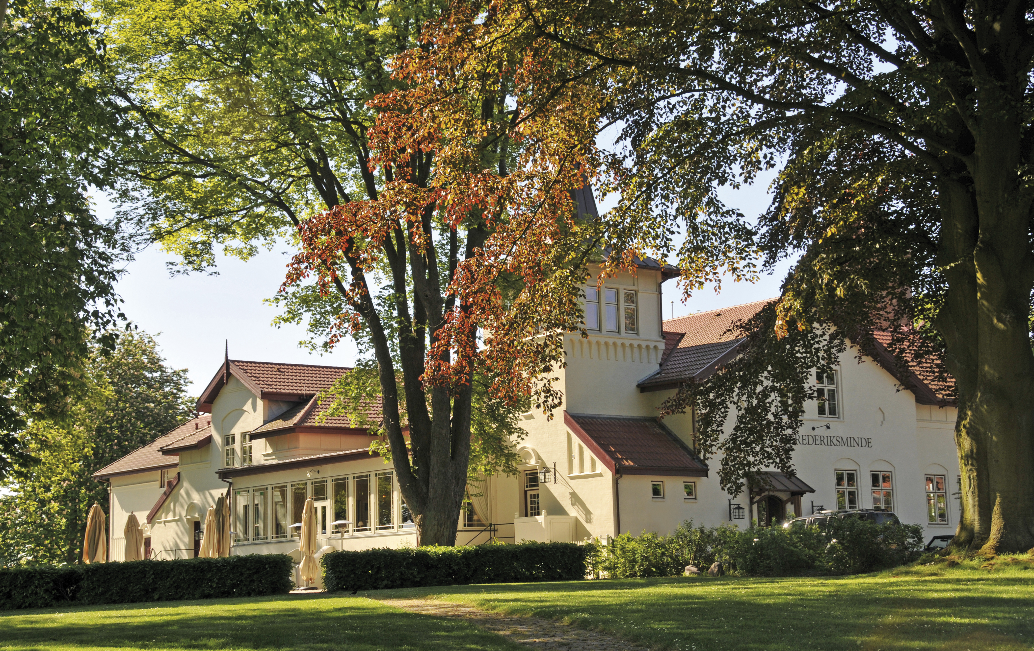 Hotel Frederiksminde anno 2007